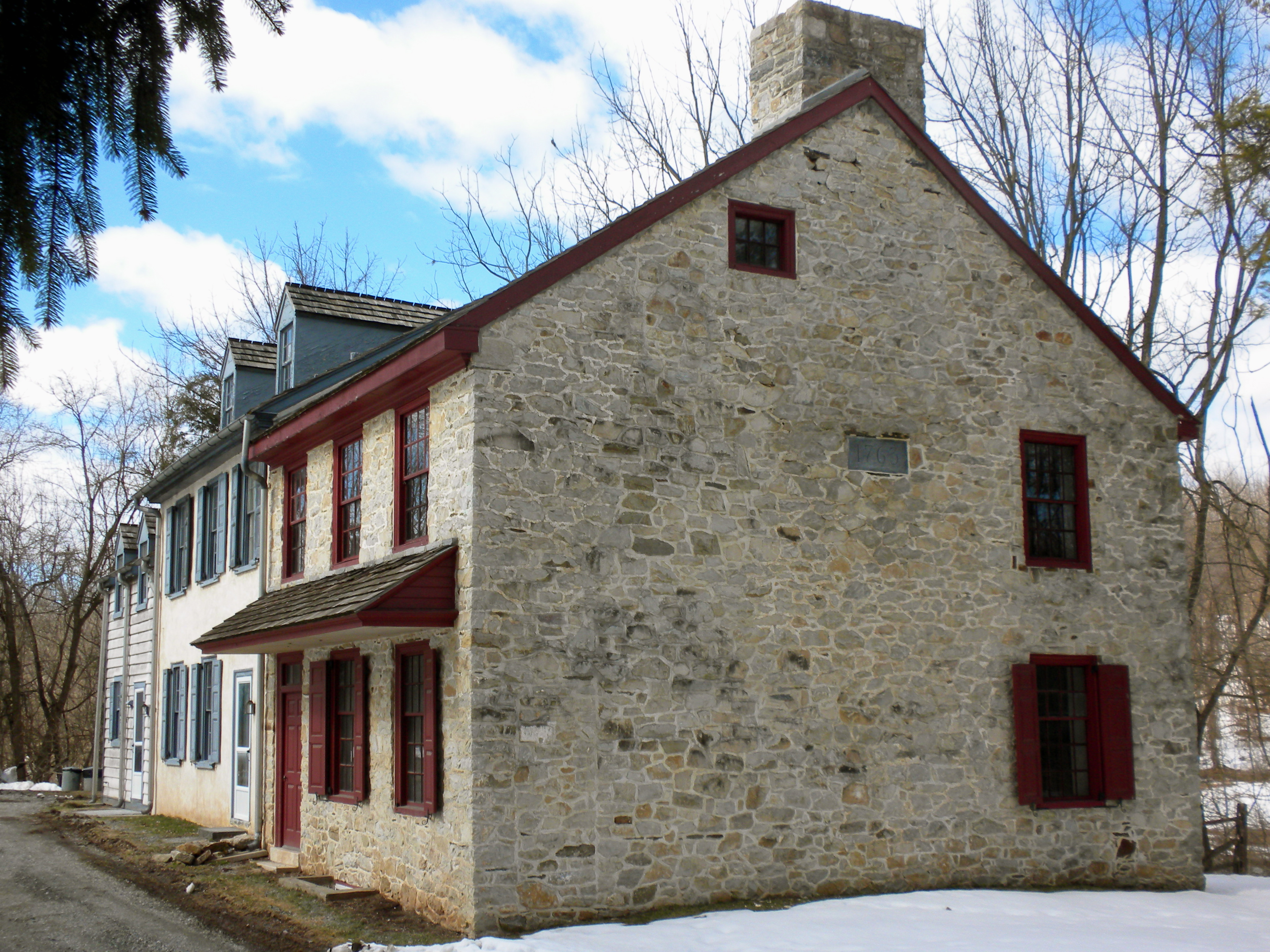 Lafayette's Quarters during the Valley Forge encampment (probably only the stone part of the building). On NRHP since June 20, 1974 Southeast of Valley Forge on Wilson Road, NORTH of I-76. Coords should be farther north. In Tredyffrin Township, Chester County, PA